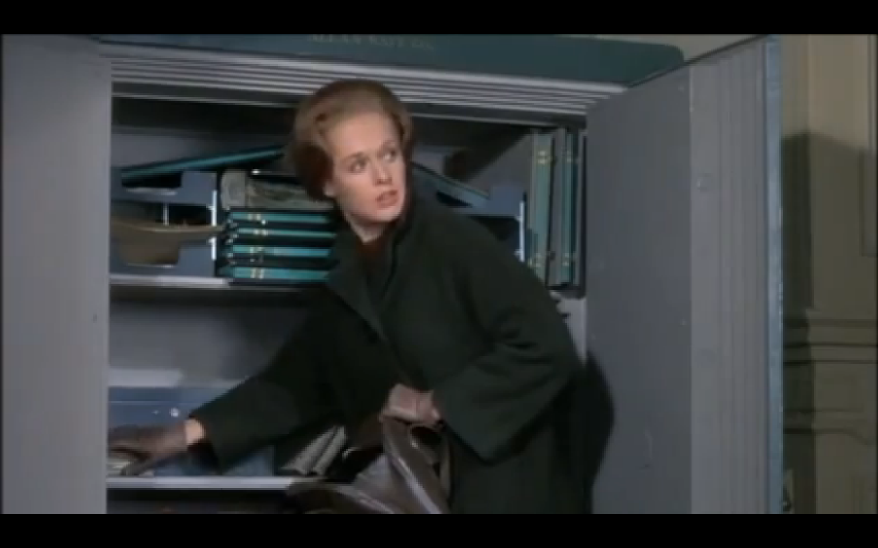 Tippi Hedren in Hitchcock's "Marnie" trailer.